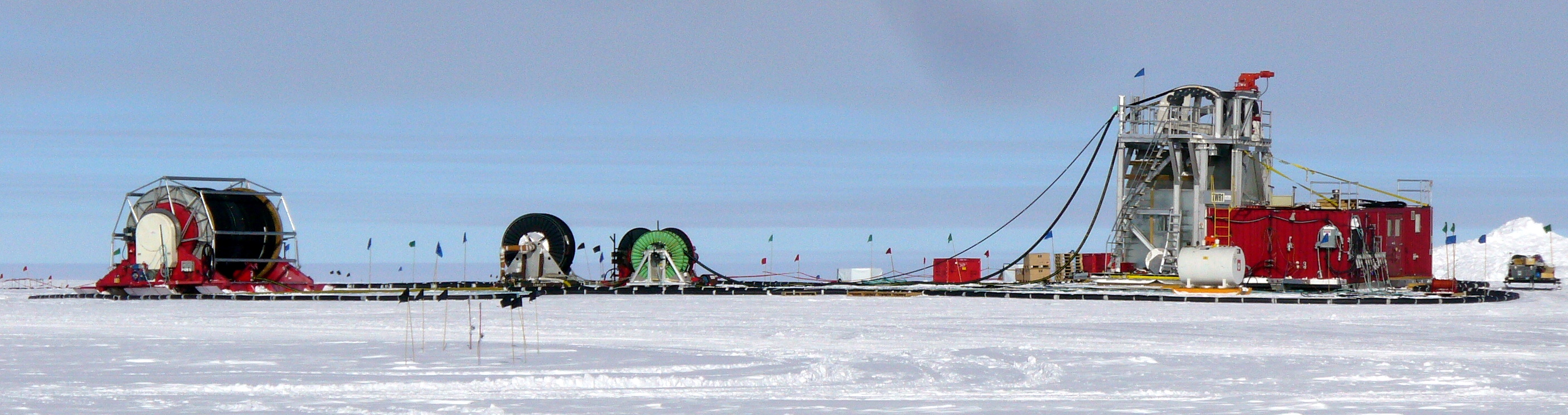 Ice Cube drilling setup at drill camp, December 2009